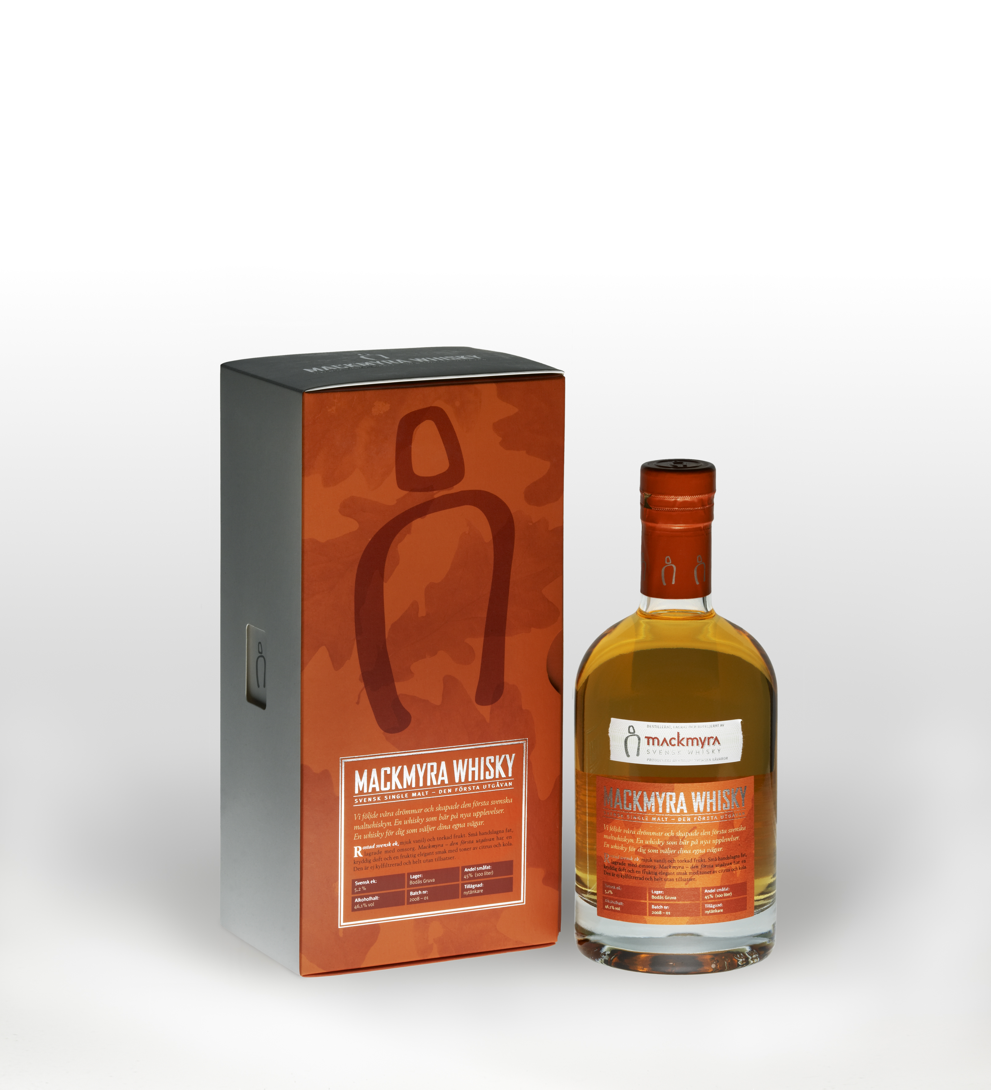 Mackmyra Whisky - 1st Edition Bottle